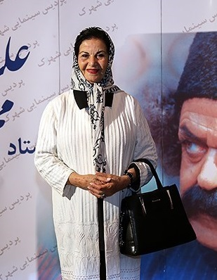 Pouri Banayi